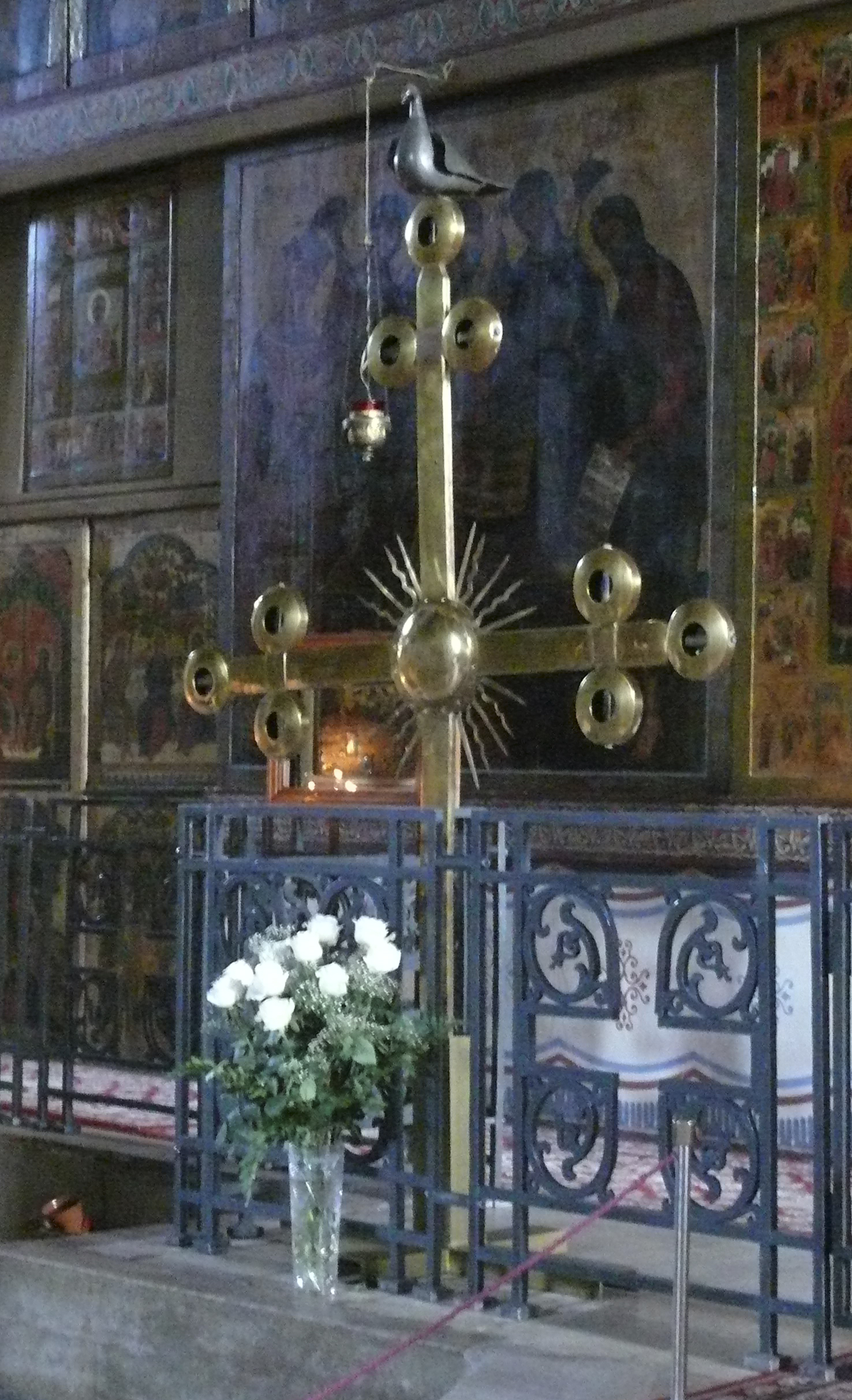 The original cross whith the pigeon in the St. Sophia cathedral in Veliky Novgorod